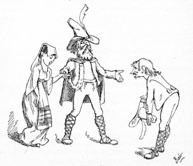 Illustration by the author to "Gentle Alice Brown"